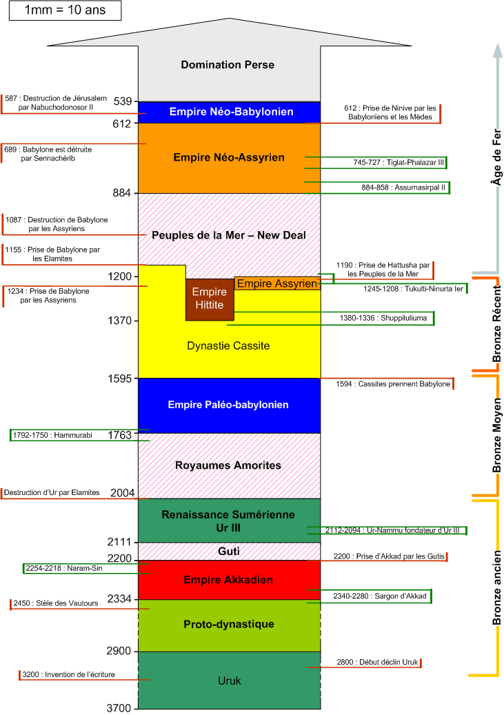 A synthetized chronology of Mesopotamia